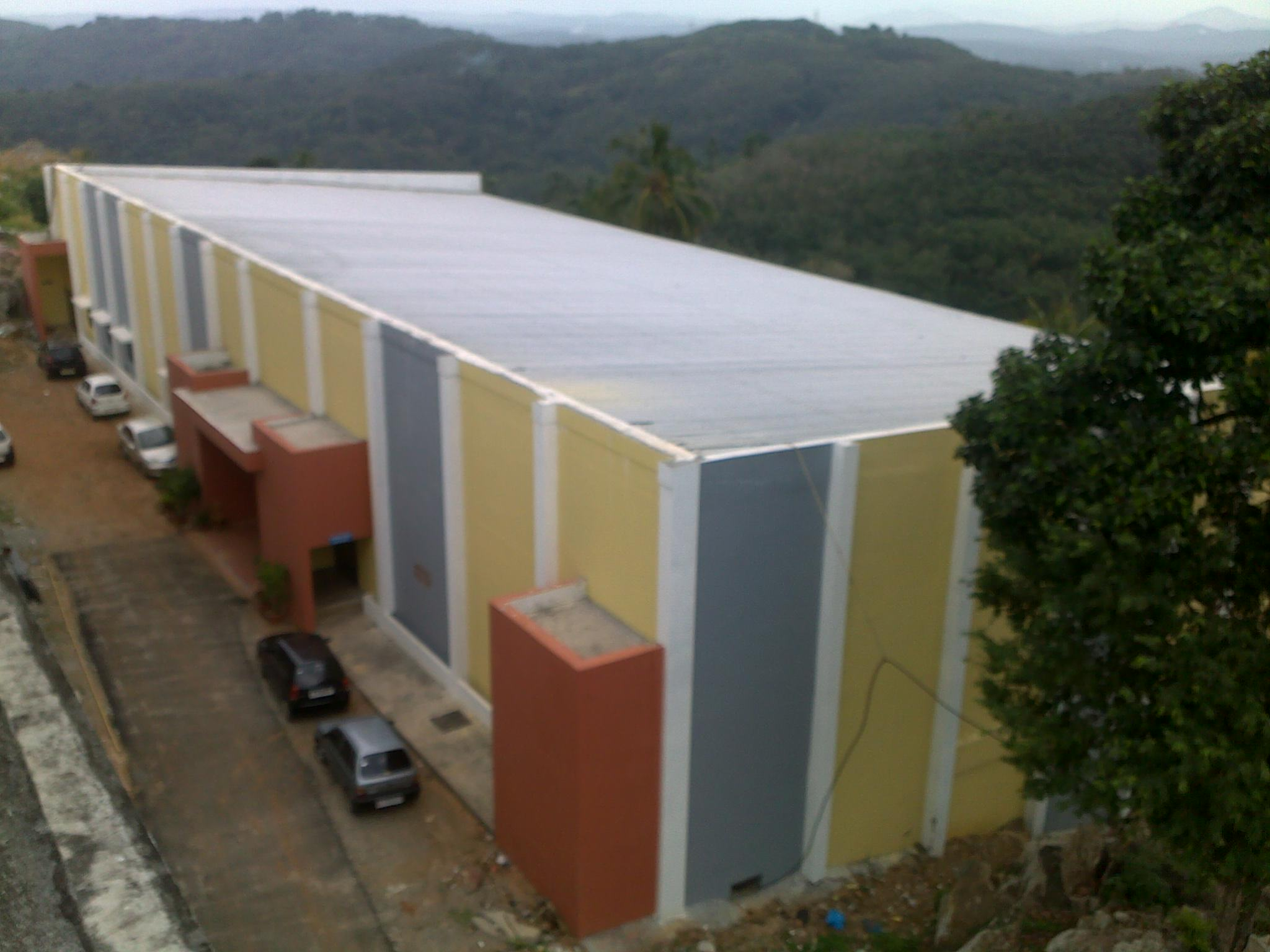 New block housing lecture halls along with the state-of-art Dhanwantari Auditorium.